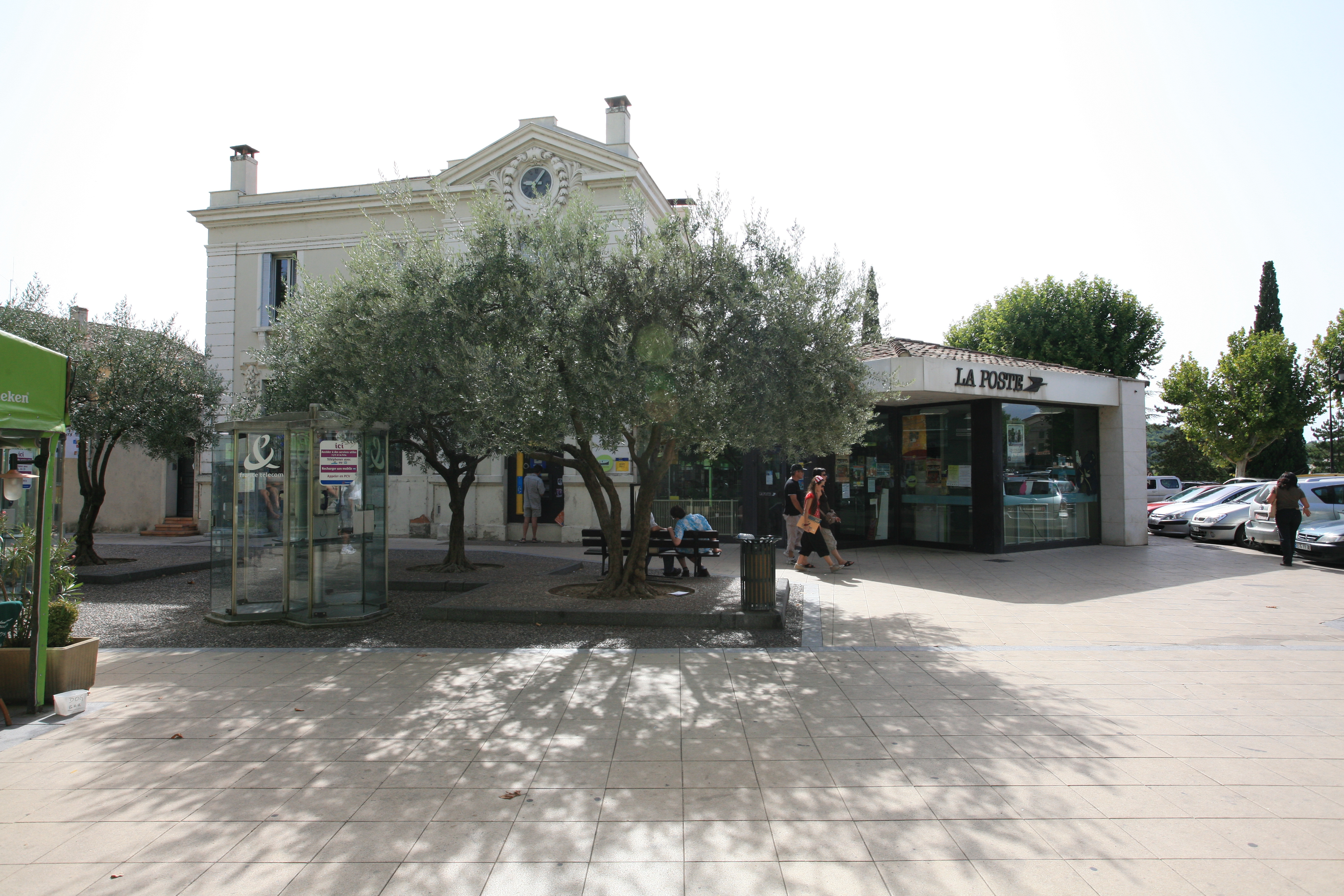 Poste and touriste offices Vaison-la-Romaine France